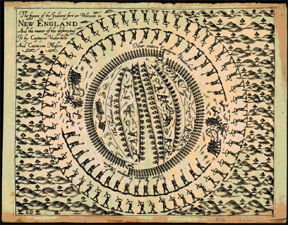 Engraving depicting the assault on the Pequot fort during the Pequot War.